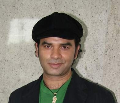 Indian singer Mohit Chauhan at the Music Ka Maha Muqabla show launch